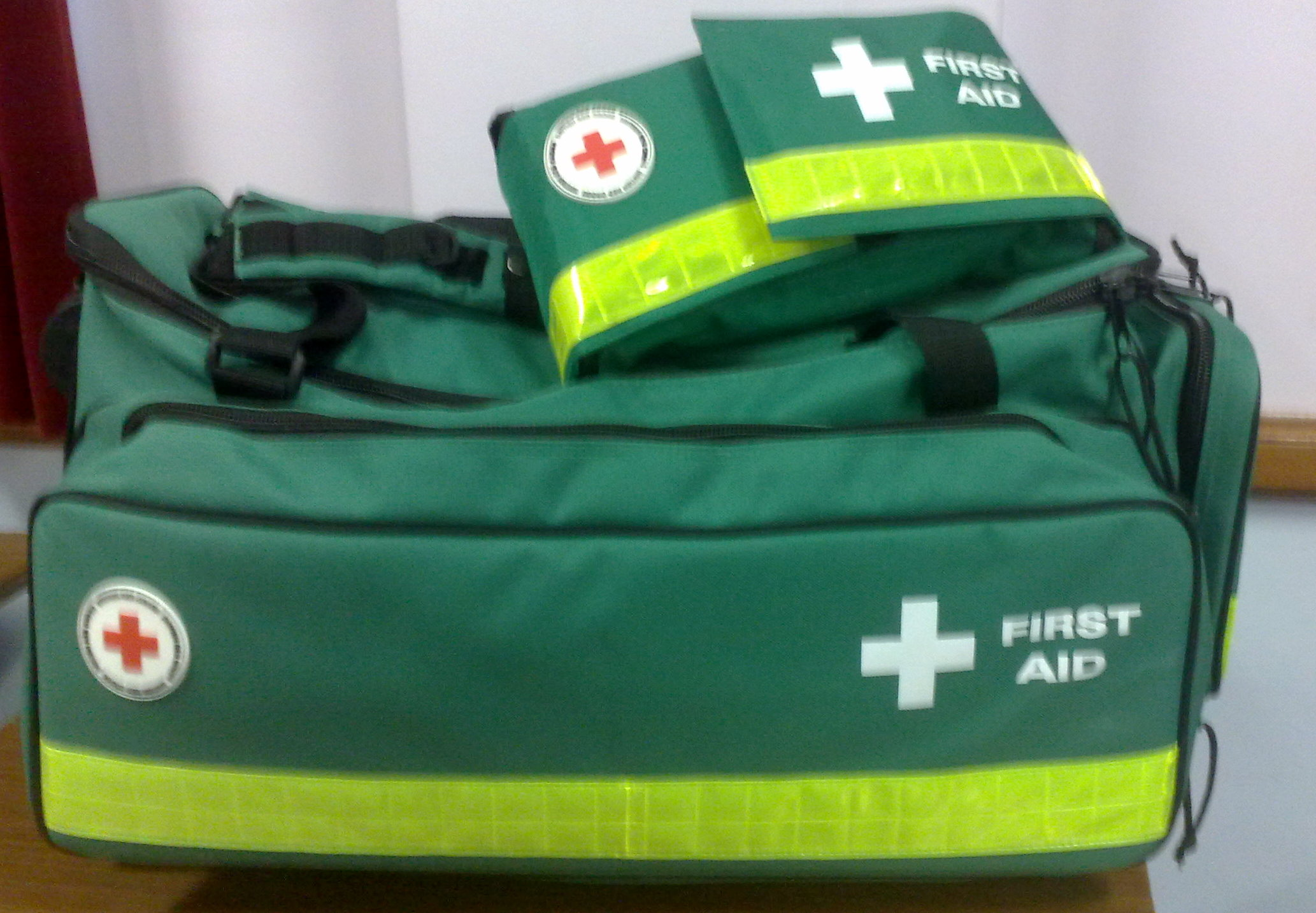 A large first wheeled first aid kit, and small first aid personal bag used by the British Red Cross for event first aid duties. It is in the ISO green for first aid kits, features both the ISO First Aid symbol (white cross on green background), and the protected Red Cross symbol, which is legally restricted by the Geneva Conventions to use by only recognised military users and national Red Cross societies